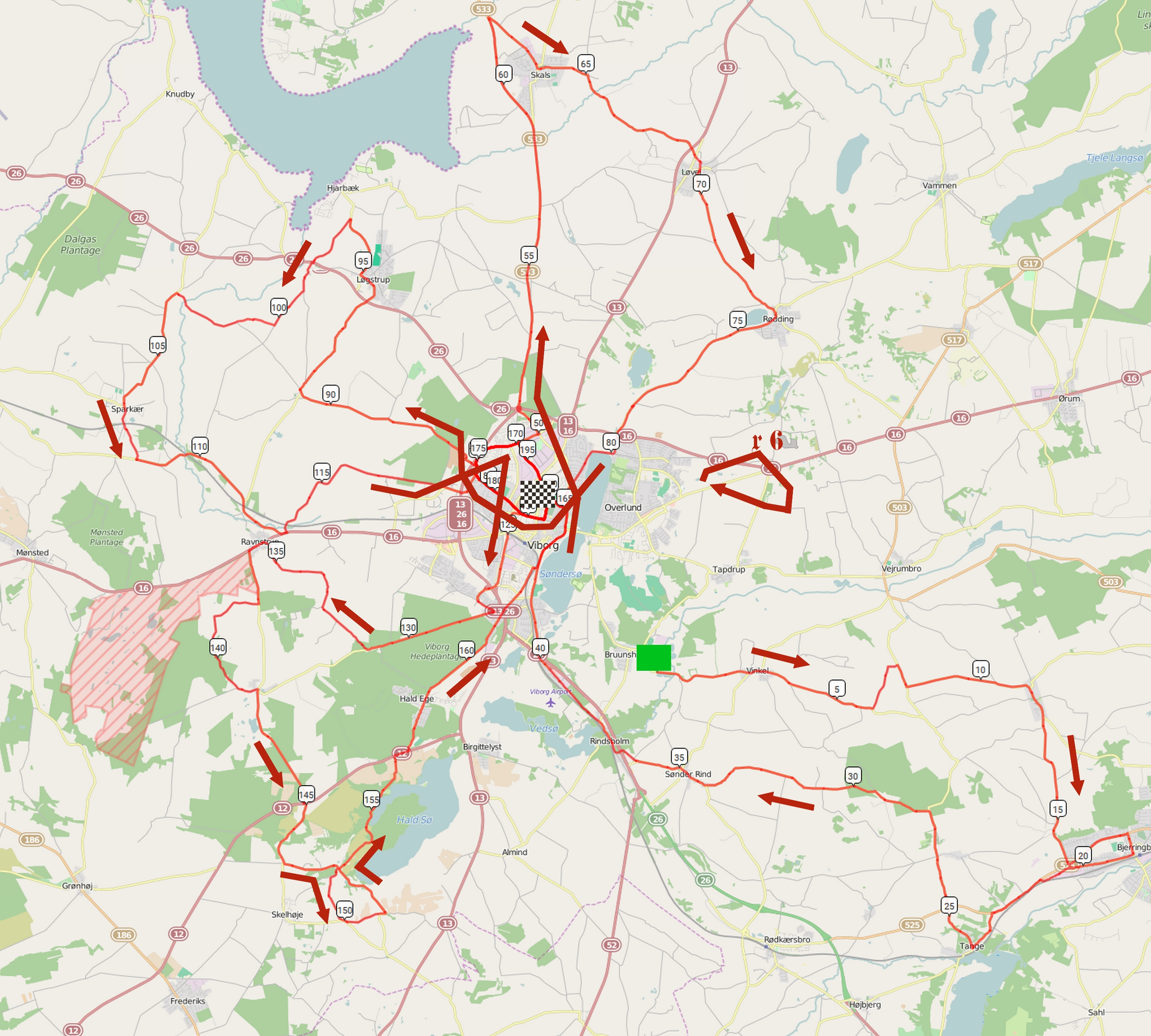 Parcours du Grand Prix Viborg 2015. This map may be incomplete, and may contain errors. Don't rely solely on it for navigation.